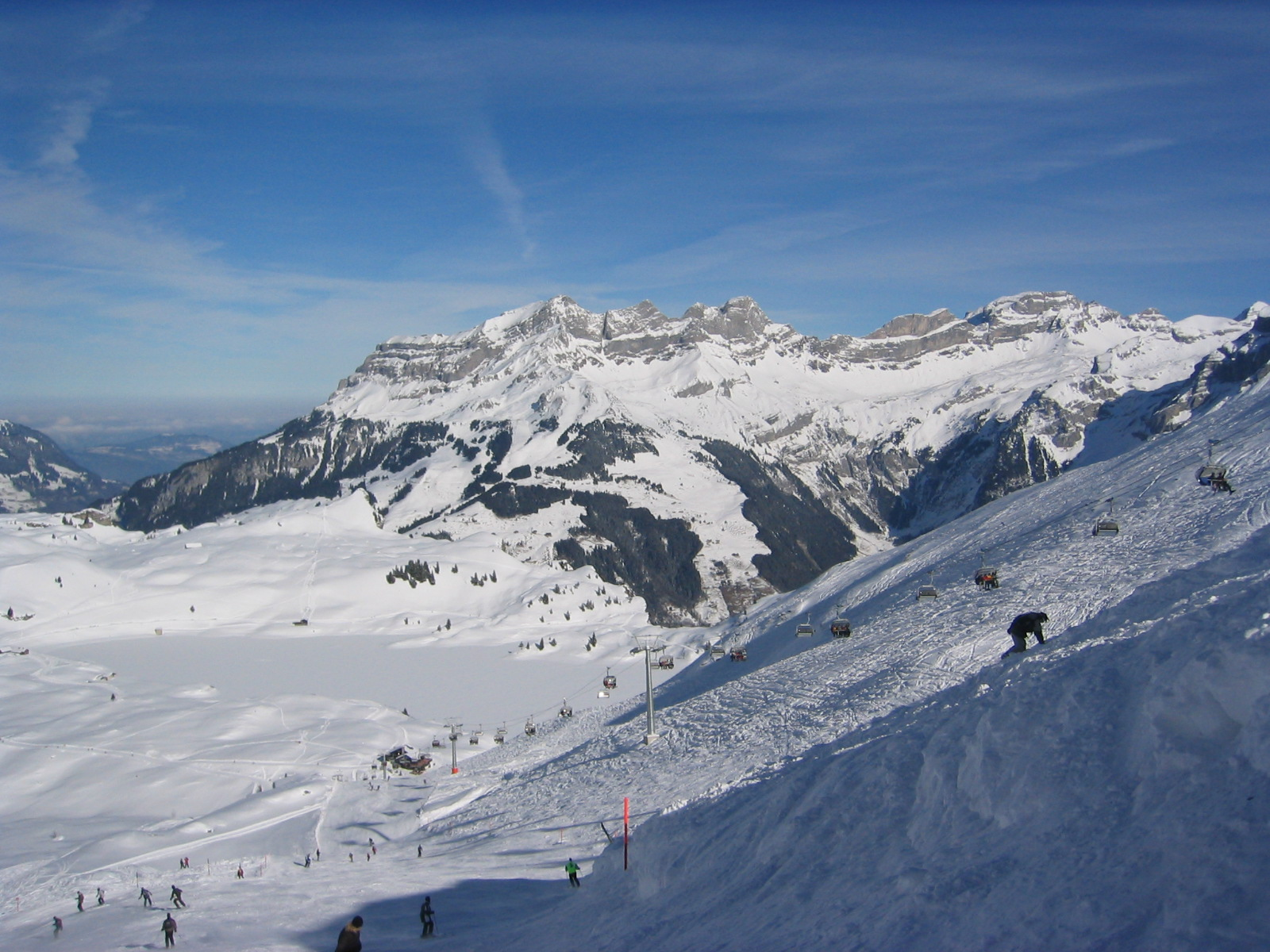 Engelberg